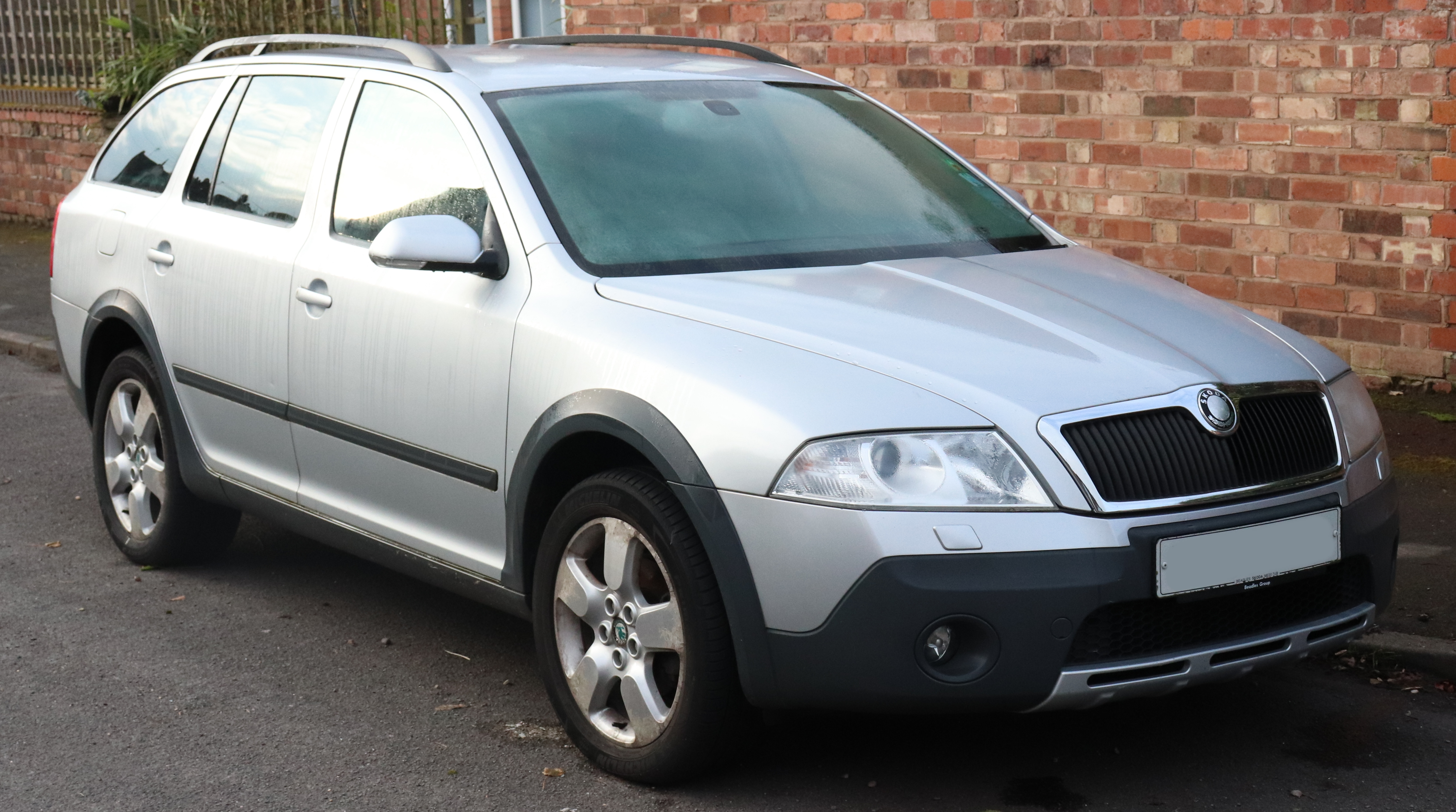 2008 Skoda Octavia Scout TDi 2.0 Front Taken in Leamington Spa